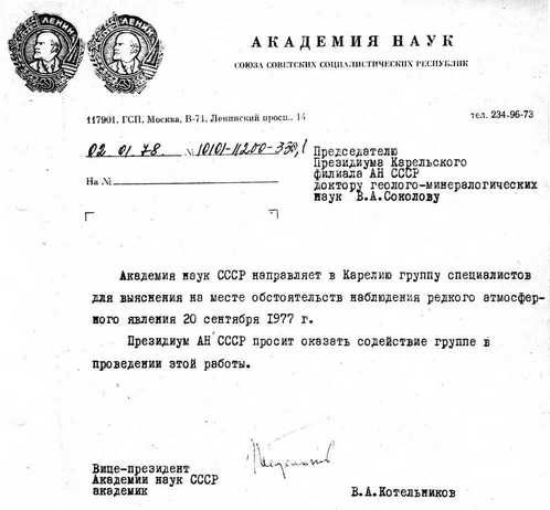 A note of the USSR Academy of Sciences informing about the dispatch of a group to study the Petrozavodsk phenomenon and requesting assistance to it.